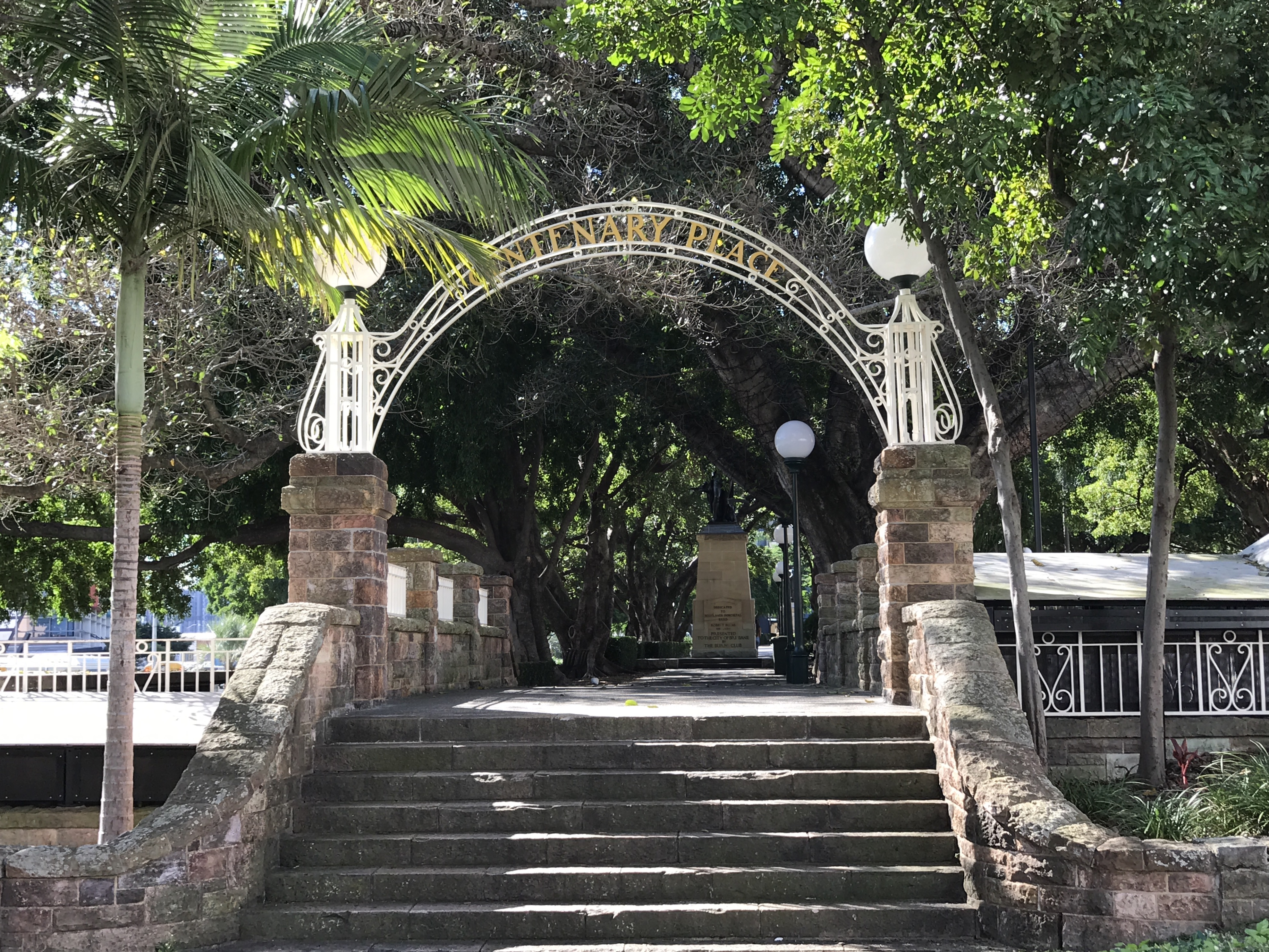 Centenary Place, Brisbane, Queensland